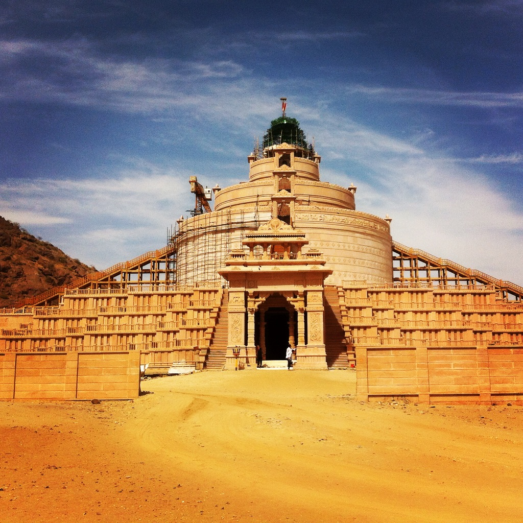 Beautiful Samosaran Jain temple of Parshwanath Bhagwan near Nakodaji in Rajasthan